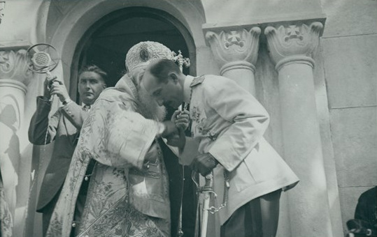 Boris III of Bulgaria in Vidin, Bulgaria